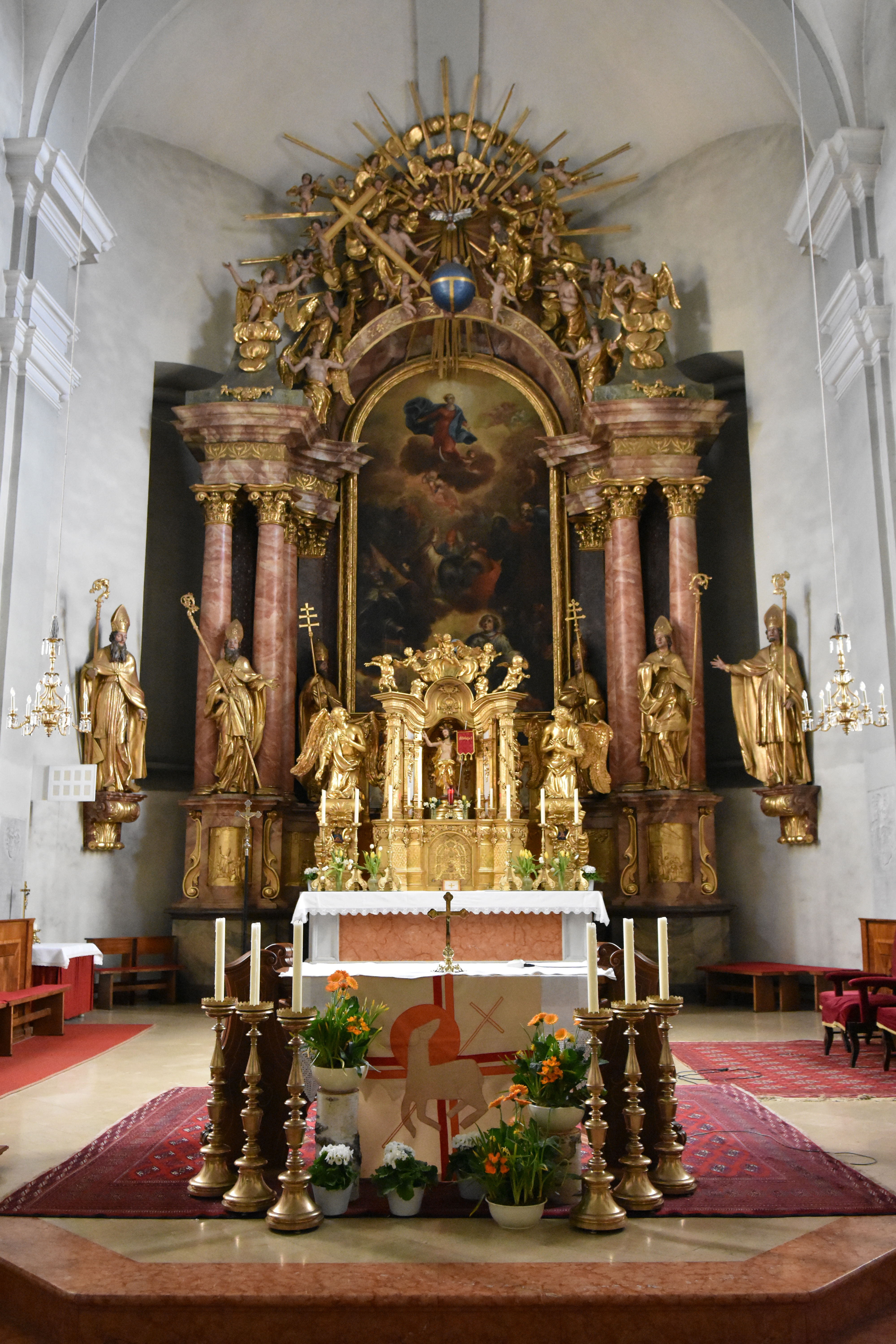 Church Deutschlandsberg - Interior